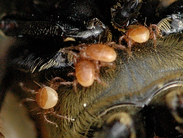 Poecilochirus carabi from Commanster, Belgian High Ardennes.